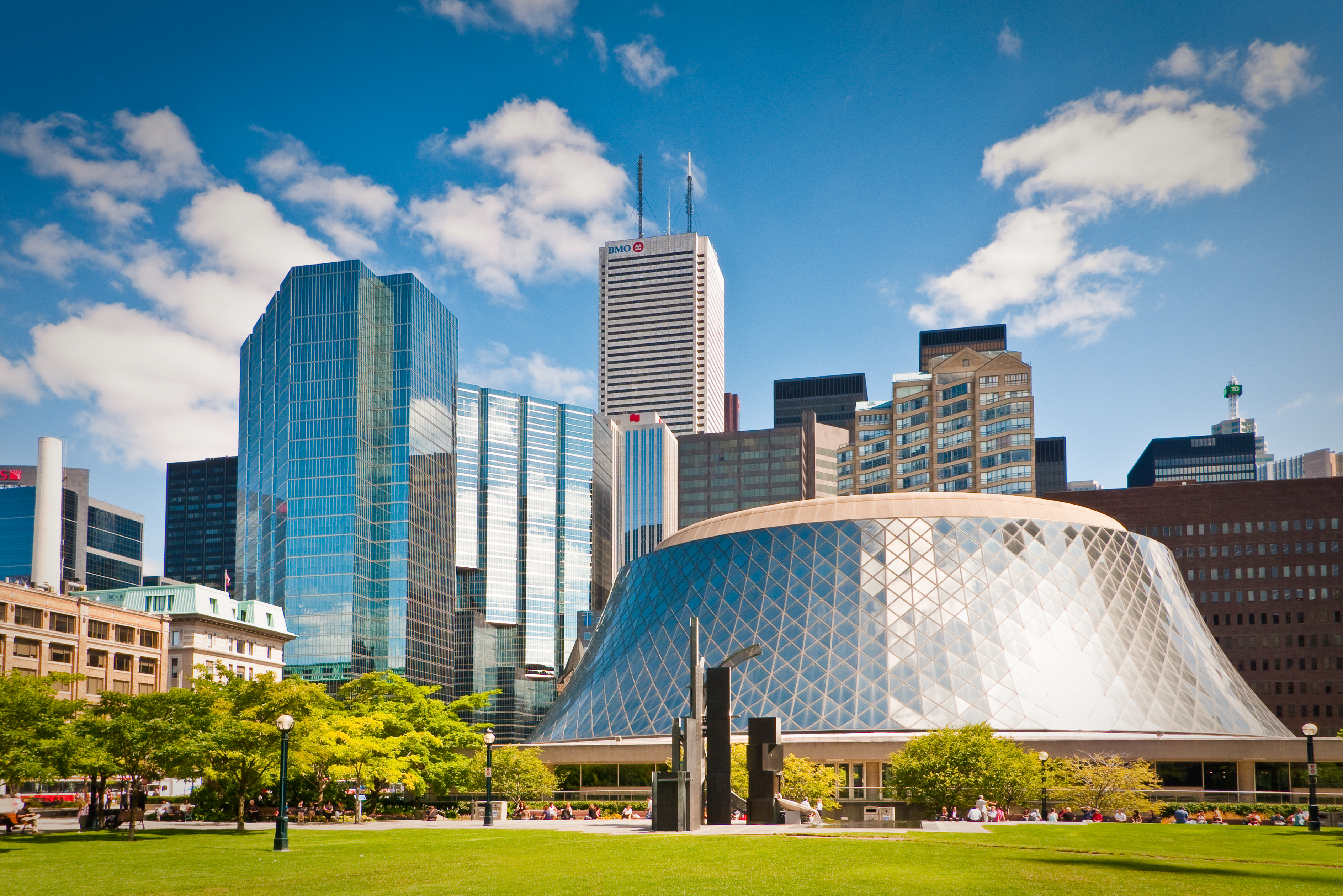 Downtown Toronto during the day. Roy Thomson Hall is in the foreground.